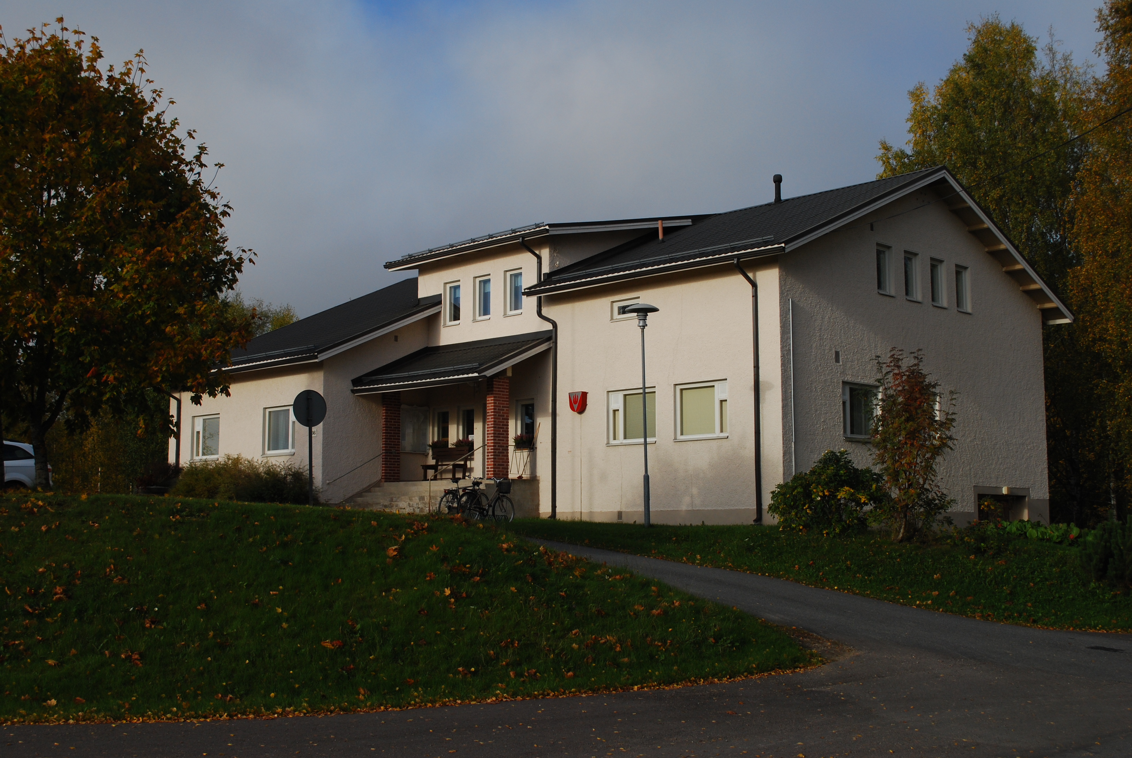 Former municipality hall of Kuhmalahti. Kuhmalahti joined Kangasala in 2011